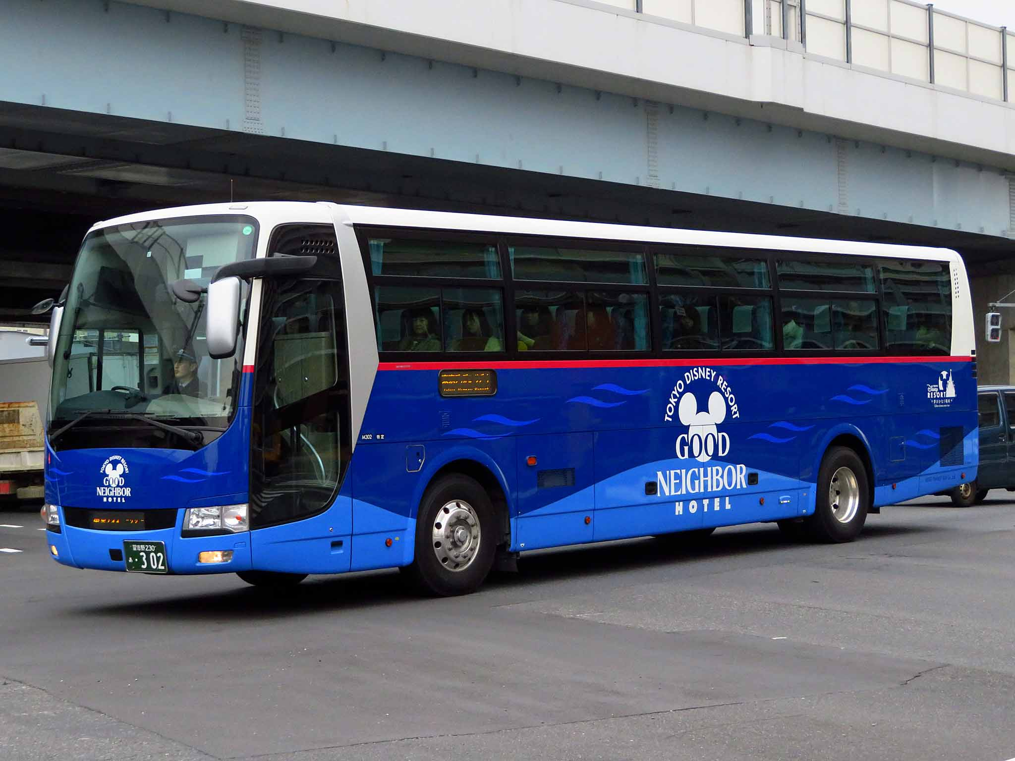 Fleet of Tokyo Disney Resort Good Neighbor Hotel Shuttle. Model: Mitsubishi Fuso Aero Ace MS96VP License plate: CBN230 A0302 Operator: Keisei Transit Bus Place: Shinonome, Koto Ward, Tokyo Japan